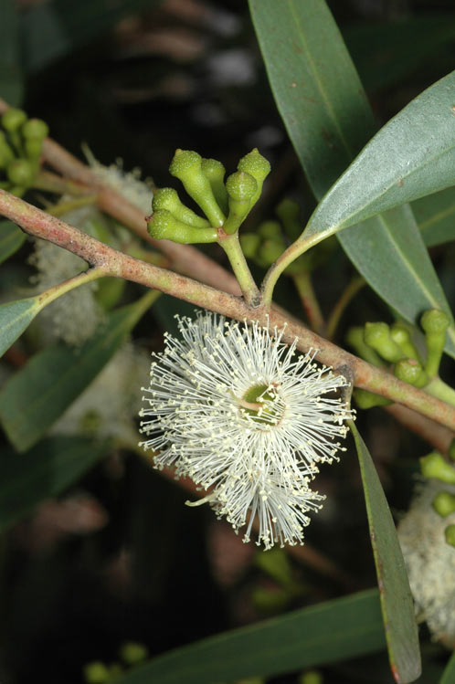 Flower buds and flowers of Eucalyptus stricta in the Australian National Botanic Gardens